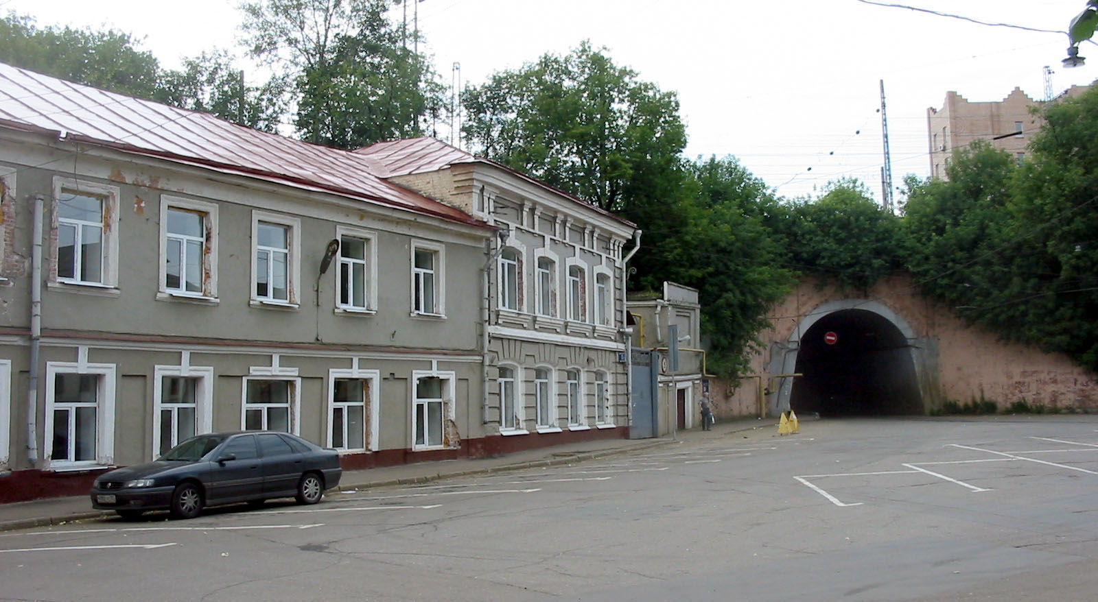 Nizhnaya Syromyatnicheskaya Street, Moscow, Basmanny District